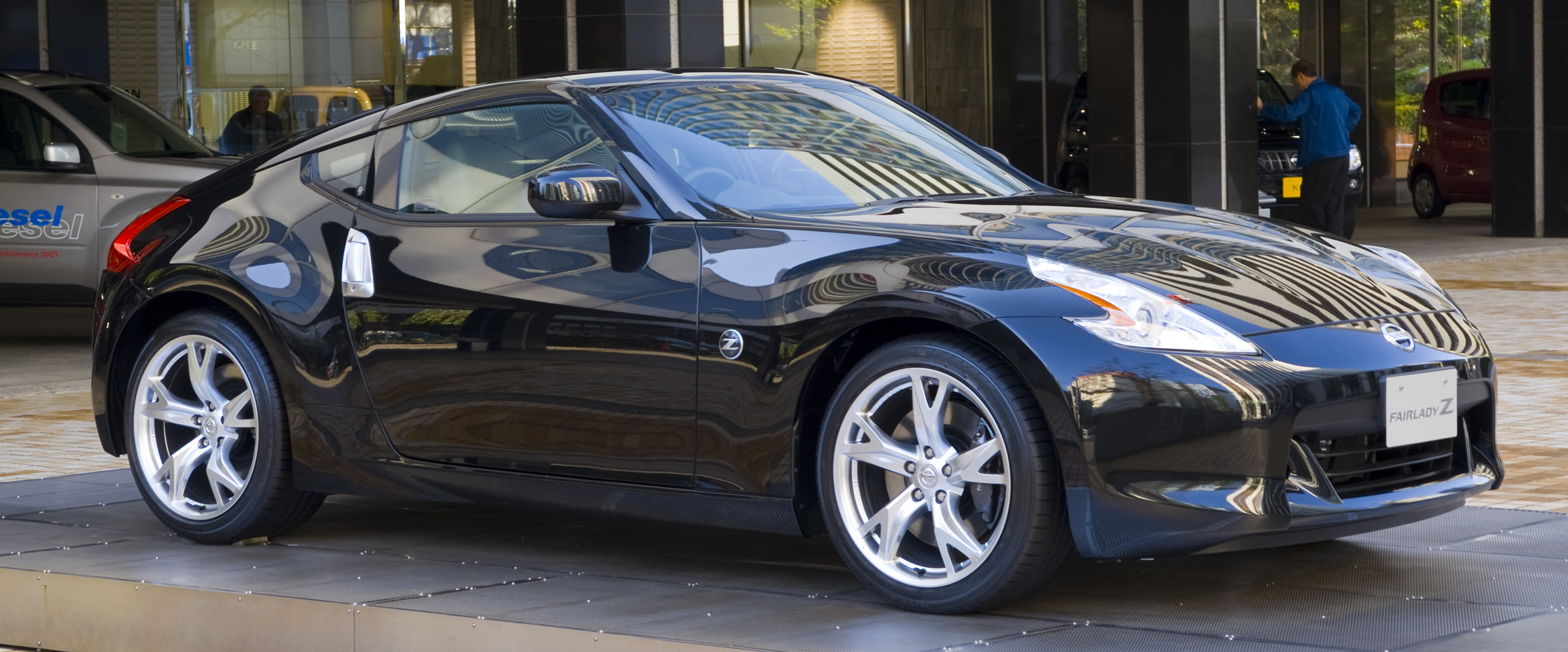 2009 Nissan Z34 Fairlady Z (370Z) photographed in Nissan Gallery (Chuo, Tokyo)